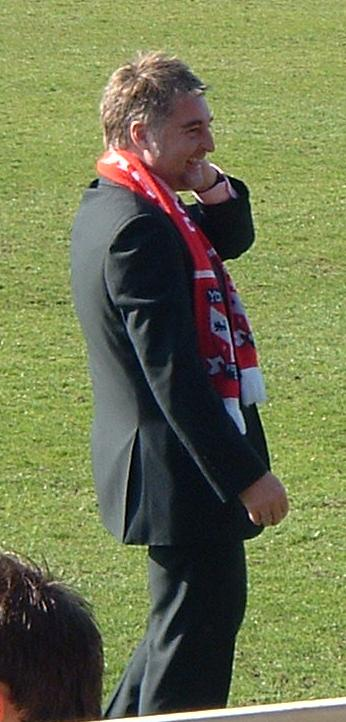 McGill in 2007.